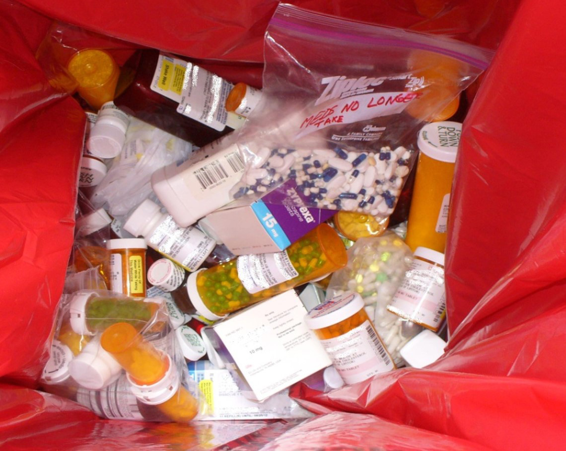 A collection of unused pharmaceutical products, collected as part of an Oregon State University research project investigating the problem.